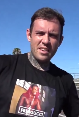 Adam22 during a video in July 2016